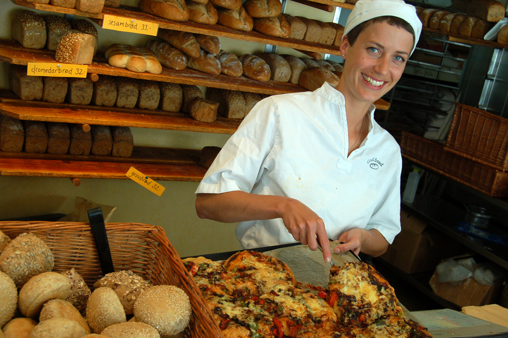 A happy baker in Oslo.